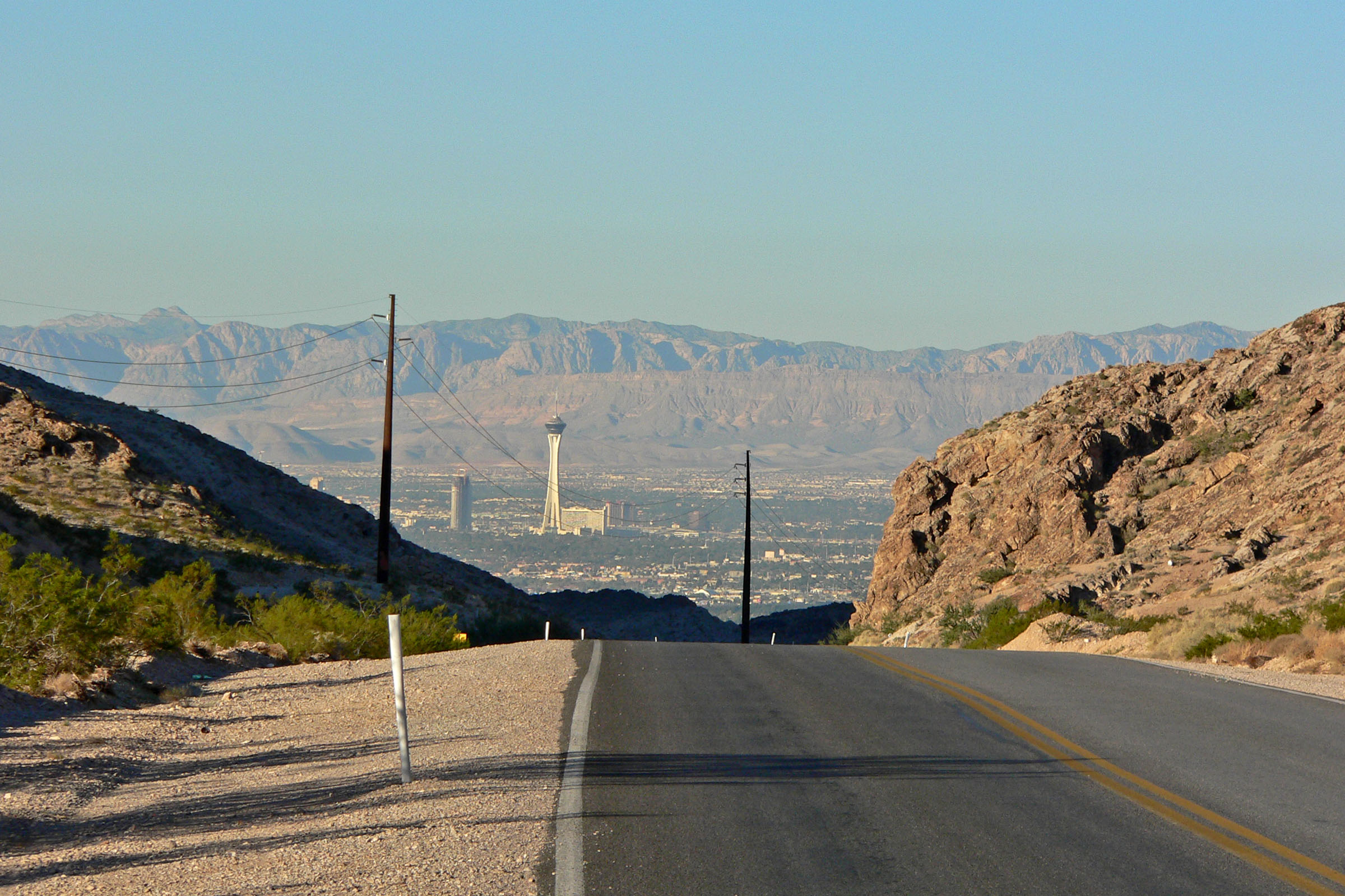 View of Las Vegas, Nevada from Lake Mead Blvd where it passes north of Frenchman Mountain